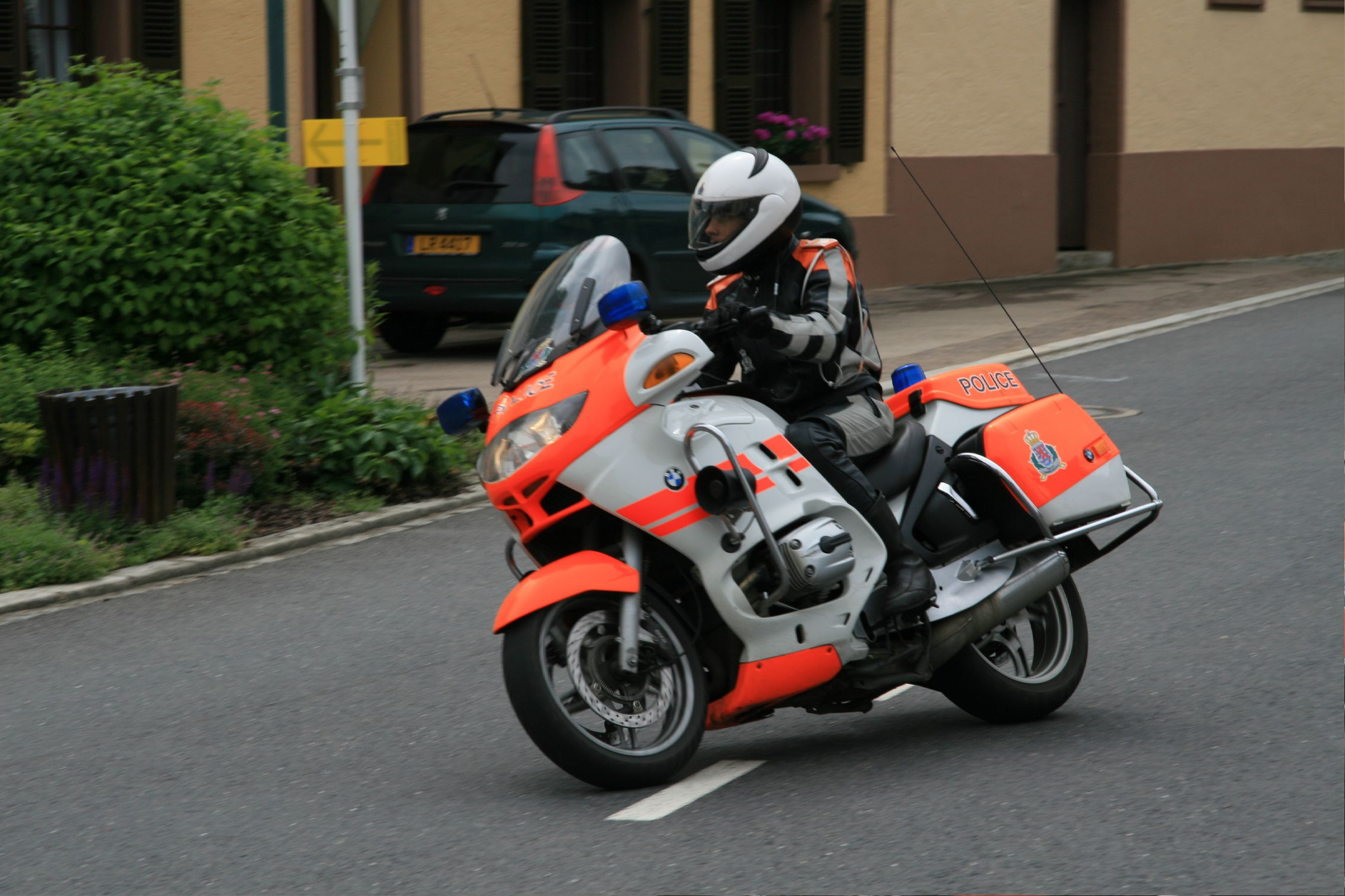 A motorcycle of the Luxembourg police in Stolzembourg, Luxembourg.